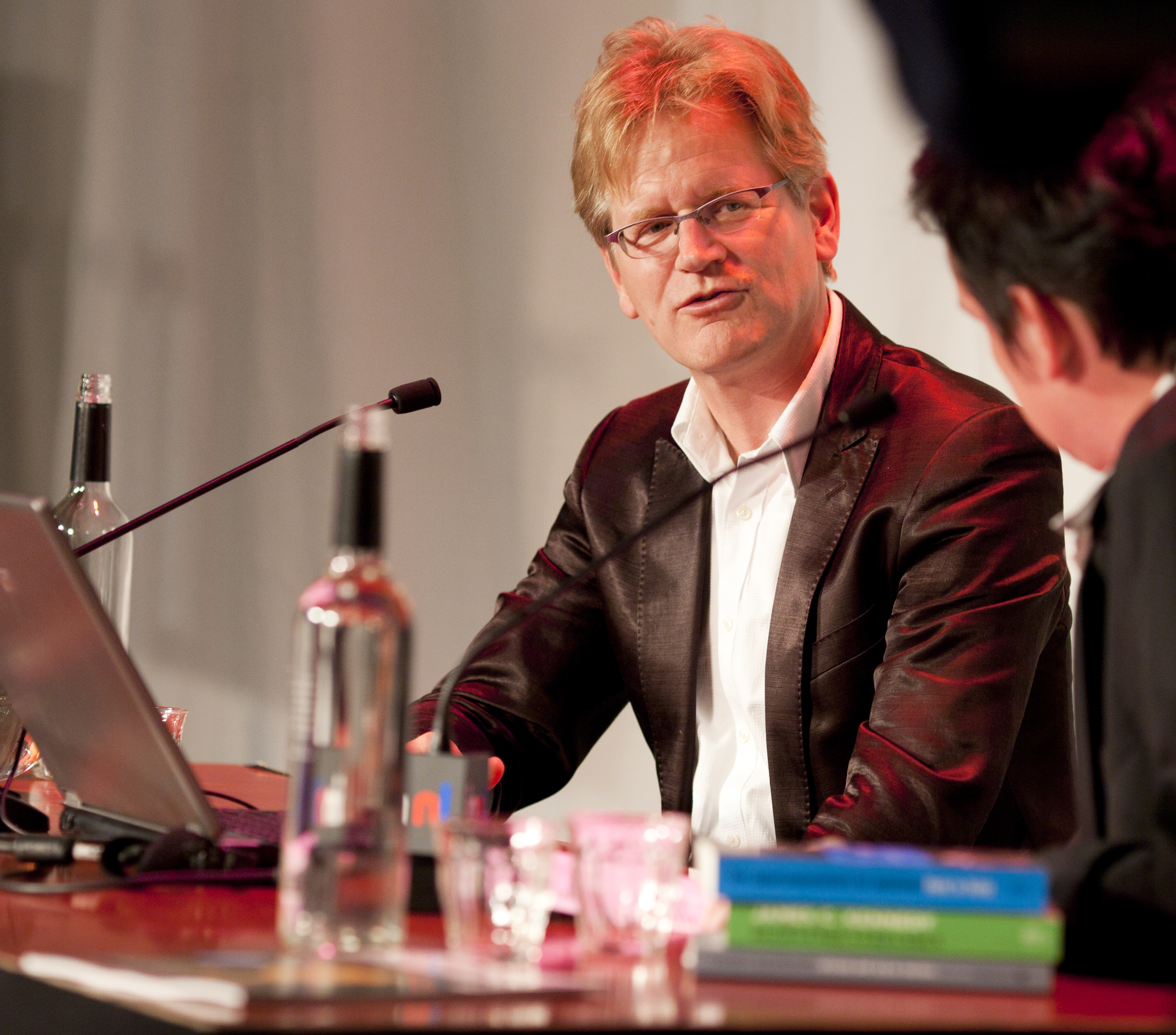 Dutch historian Henk te Velde during the History Week in the Netherlands 2010